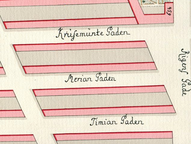 Detail from Christian Gedde's district map showing the street Meriangade now part of Gernersgade in Copenhagen, Denmark